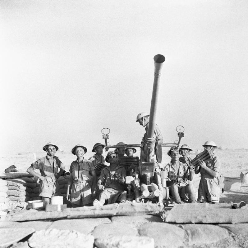 The British Army in North Africa 1942 A 40mm Bofors anti-aircraft gun, Libya, 6 June 1942.